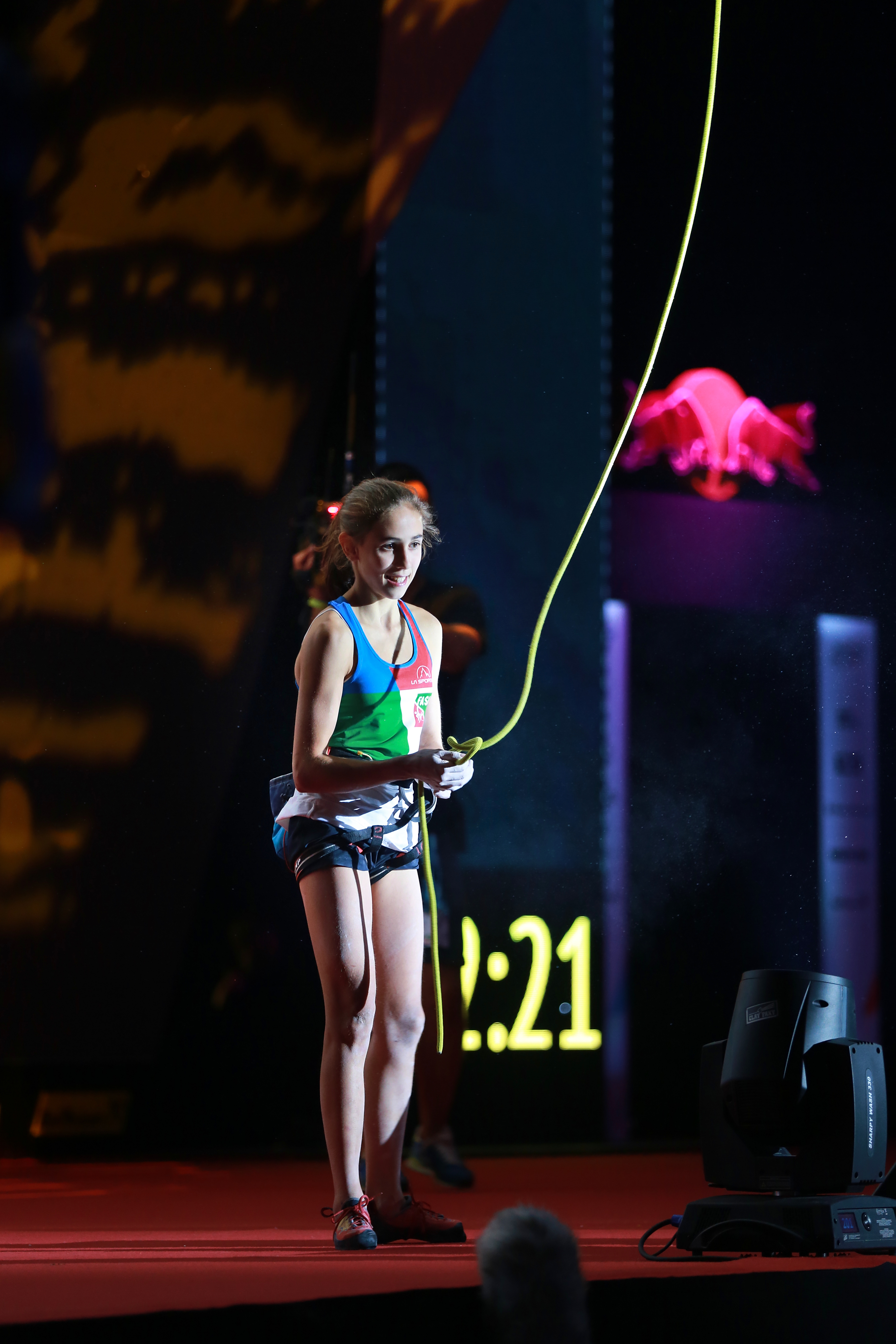 Climbing World Championships 2018 Lead Final Rogora